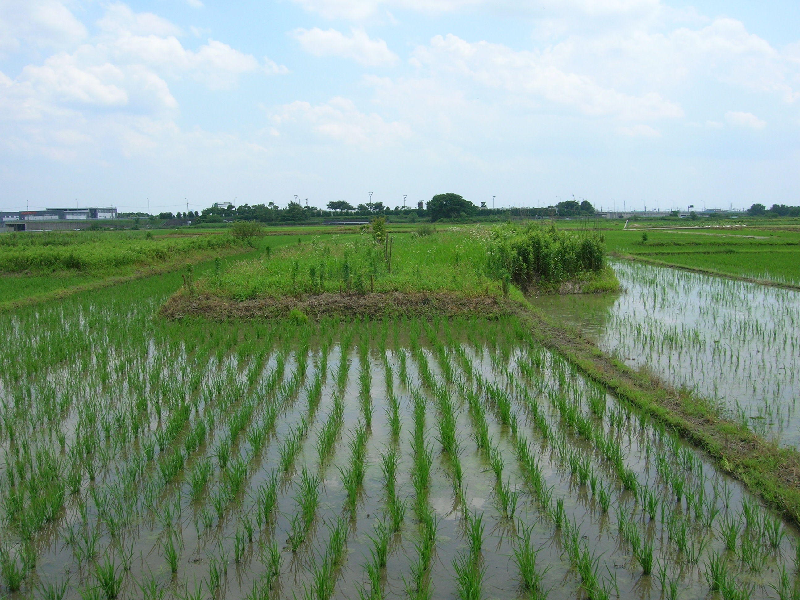 Shimabata (Traditional farming in Japan). Loc: Ichinomiya city, Aichi Prefecture, Japan. 耕作放棄された島畑 撮影場所 愛知県一宮市